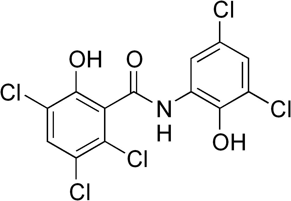 chemical structure of oxyclozanide